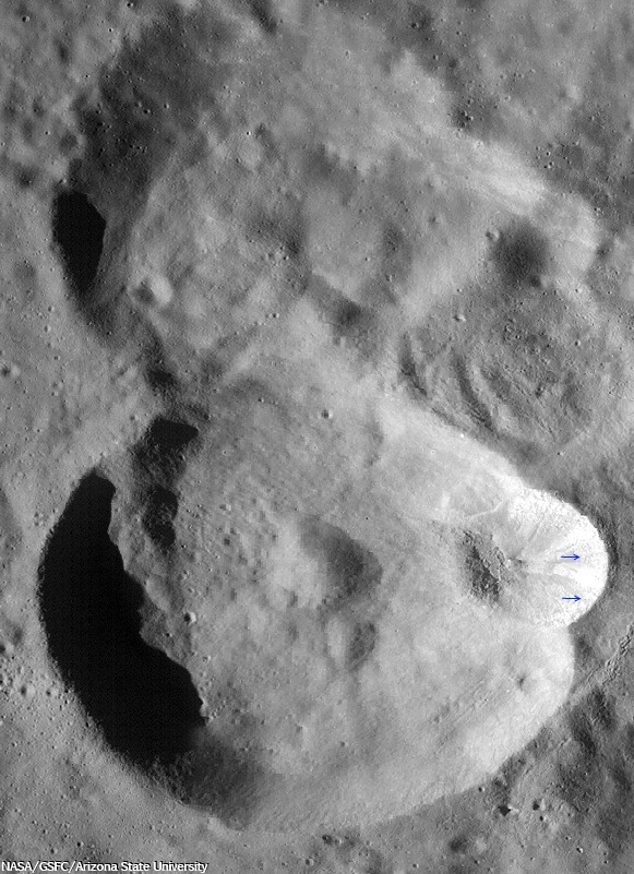 Crop from LROC Wide Angle Camera (WAC) monochrome (643 nm) observation M118695906ME, LRO orbit 2626, January 26, 2010 of the 44 km-wide crater Virtanen (below, near 15.80°N, 177.39°E) and the unnamed crater that impacted into its eastern wall.